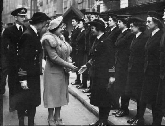 The Royal Navy during the Second World War The Women's Royal Naval Service: HM Queen Elizabeth meeting 1st Officer Jean Davies, MBE, of Liverpool, when inspecting the WRNS Guard of Honour outside Derby House, Liverpool one of the Western Approaches establishments. With Her Majesty is Chief Officer D A Hesskgrave, and in the background is Commodore I A P Macintyre, CBE, DSO, RN, Chief of Staff.